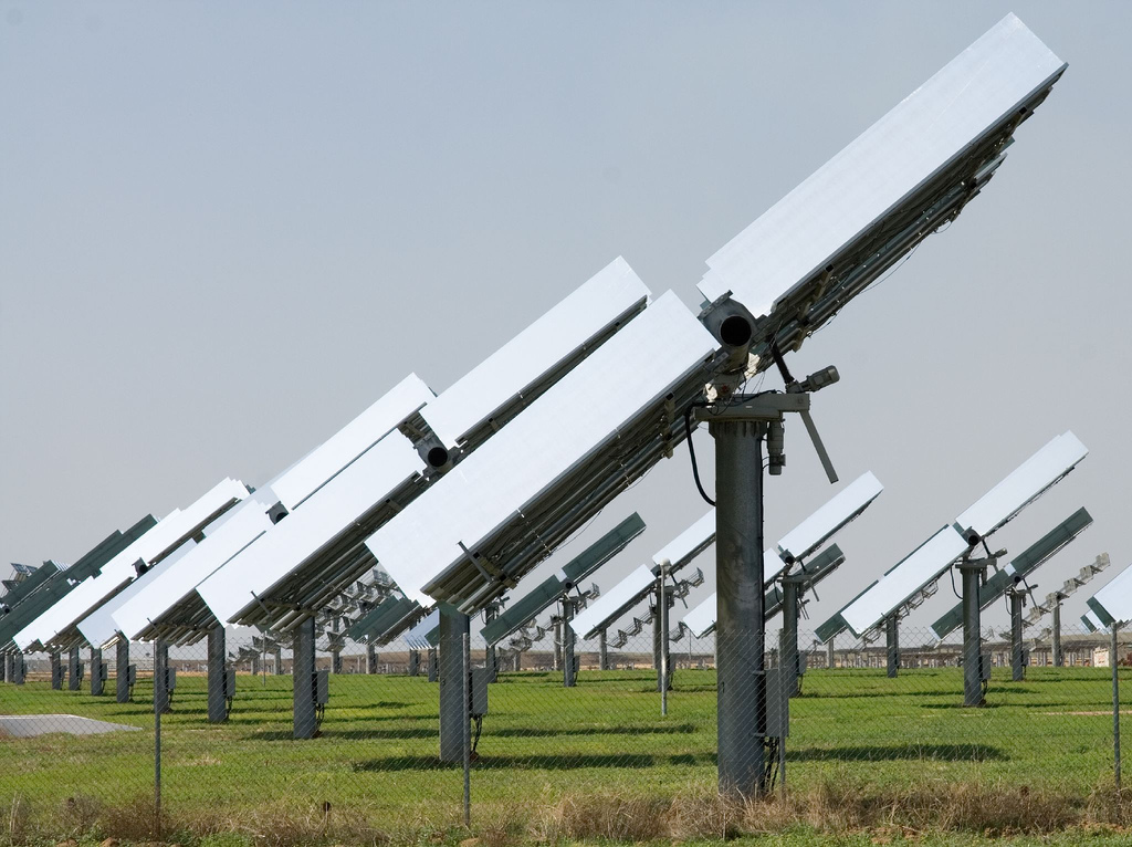 Some of the units of the Sevilla Photovoltaic Power Plant in Spain.